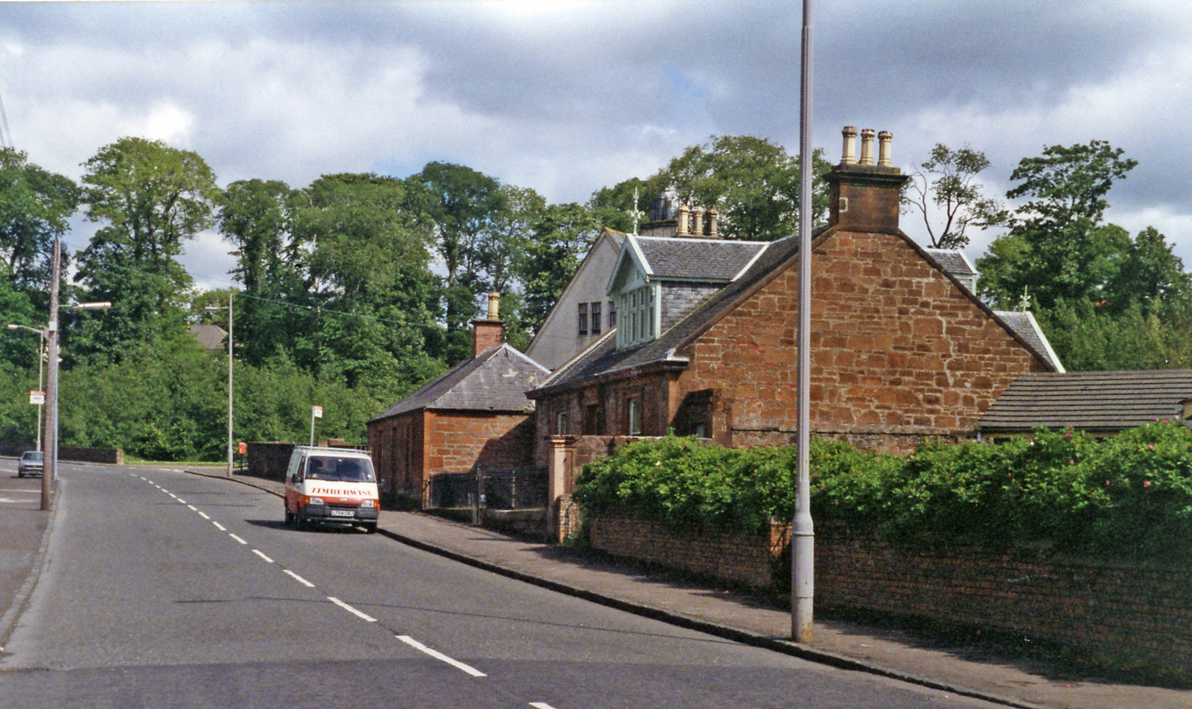 Site of Catrine station. View northward, terminus to the right, Mauchline to the left: ex-GSWR branch from Mauchline, closed for passengers 3/5/43, for goods 6/7/64. [The station was somewhre very near here!].